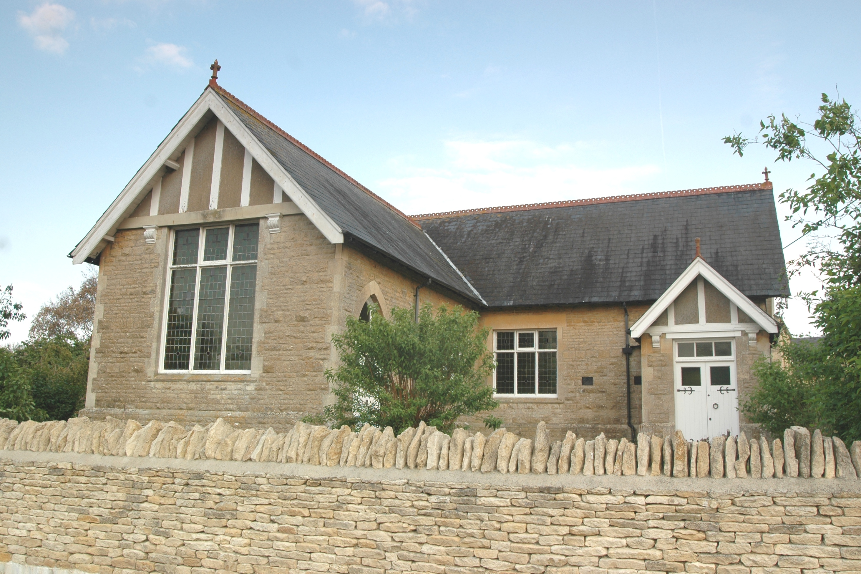 Methodist church at Chadlington, Oxfordshire